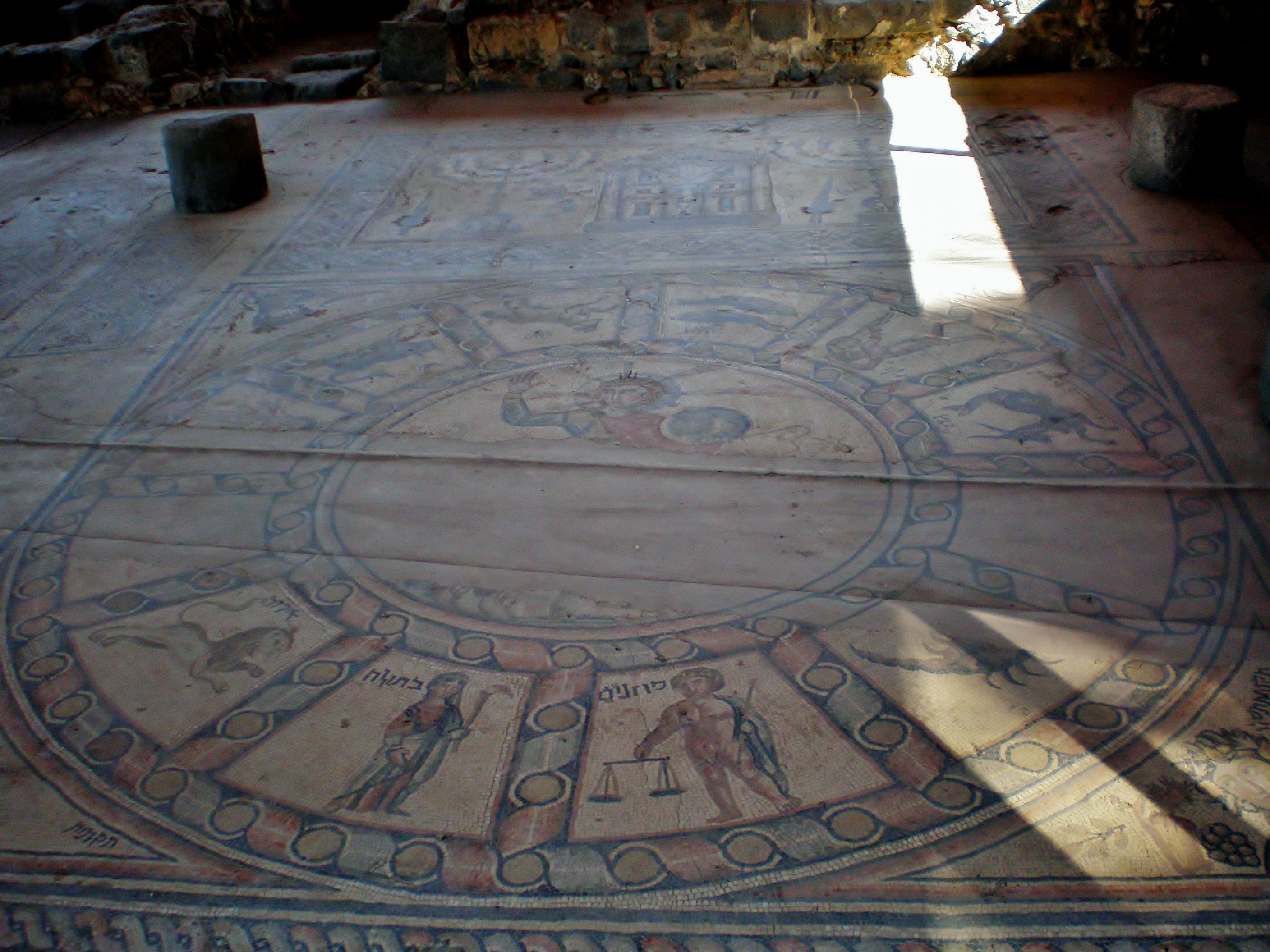 Zodiac hellenistic mosaic floor, belonging to the synagogue in Hamat Tiberias Israeli national park.